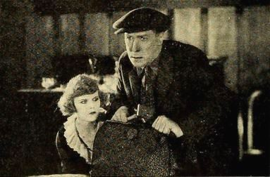 Still from the American drama film The Poppy Girl's Husband (1919) with William S. Hart and Juanita Hansen, on page 24 of the May 1919 Film Fun. Hart plays a convict who discovers that his wife, Polly the Poppy Girl (Hansen), has deserted him and married the detective who "framed" him. Hart had planned to brand her for her unfaithlessness, but the sound of their son from another room stays his hand, and he leaves with the boy.